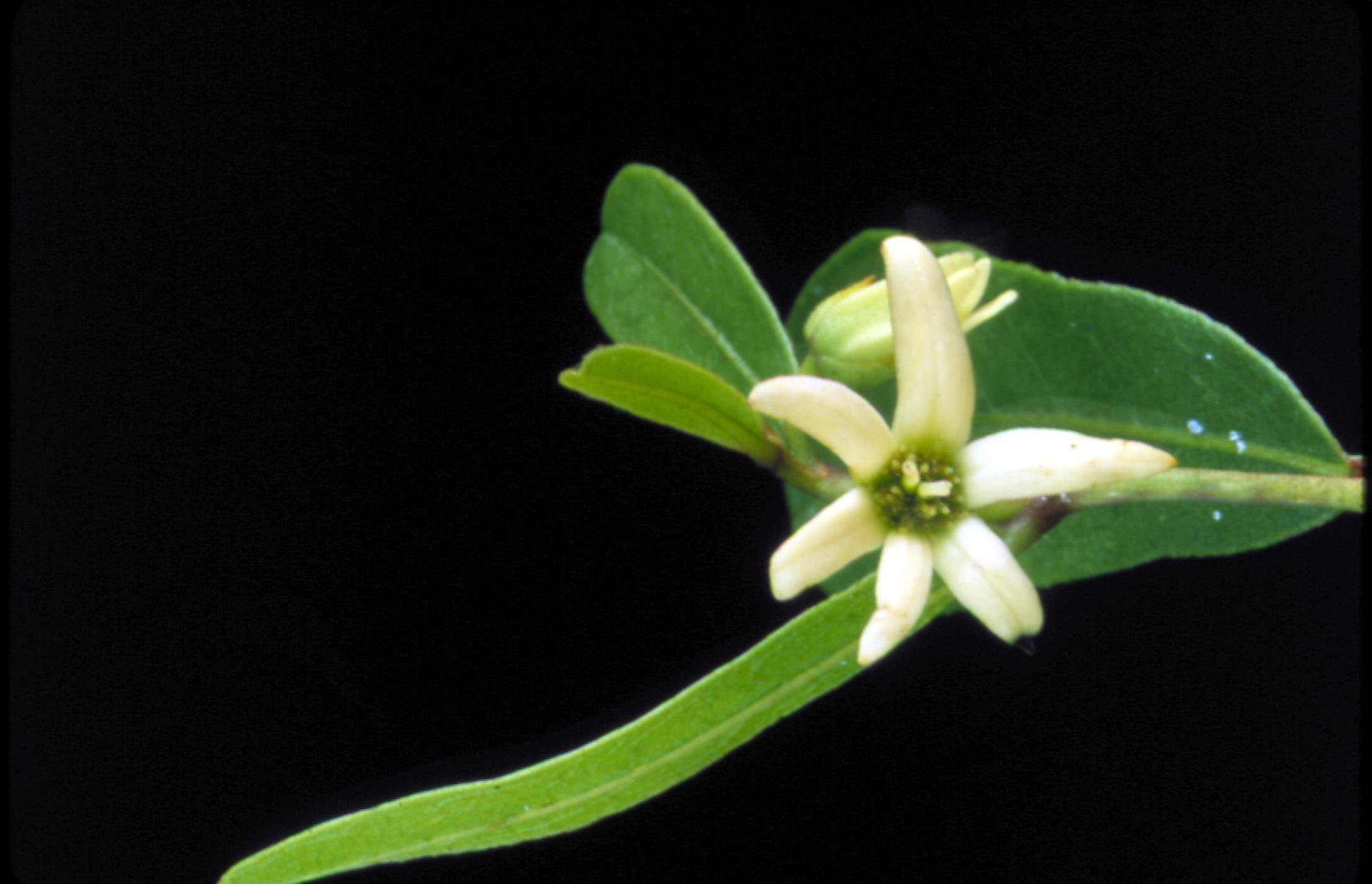 Deeringothamnus pulchellus